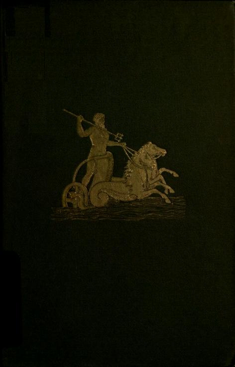 Book cover of Atlantis: The Antediluvian World by Ignatius L. Donnelly (1831–1901). Scanned from the library collection at the University of Toronto and available from the Internet Archive. I removed the library's catalog barcode from this image, which was not part of the original book cover.